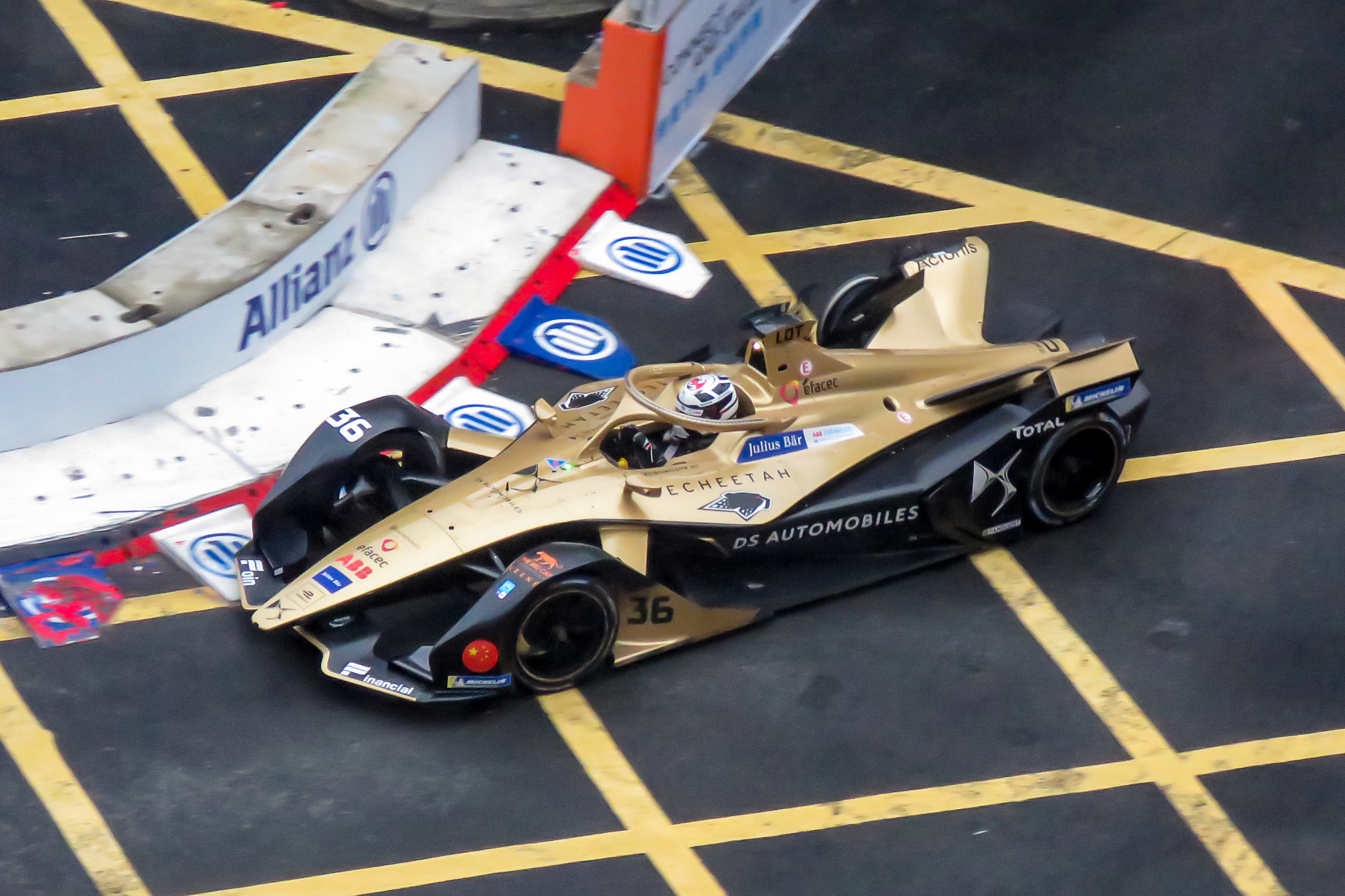 Later it was hit by Sam Bird.